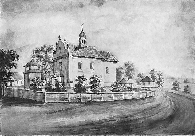 Chapel of St. Josaphat in Volodymyr-Volynskyi